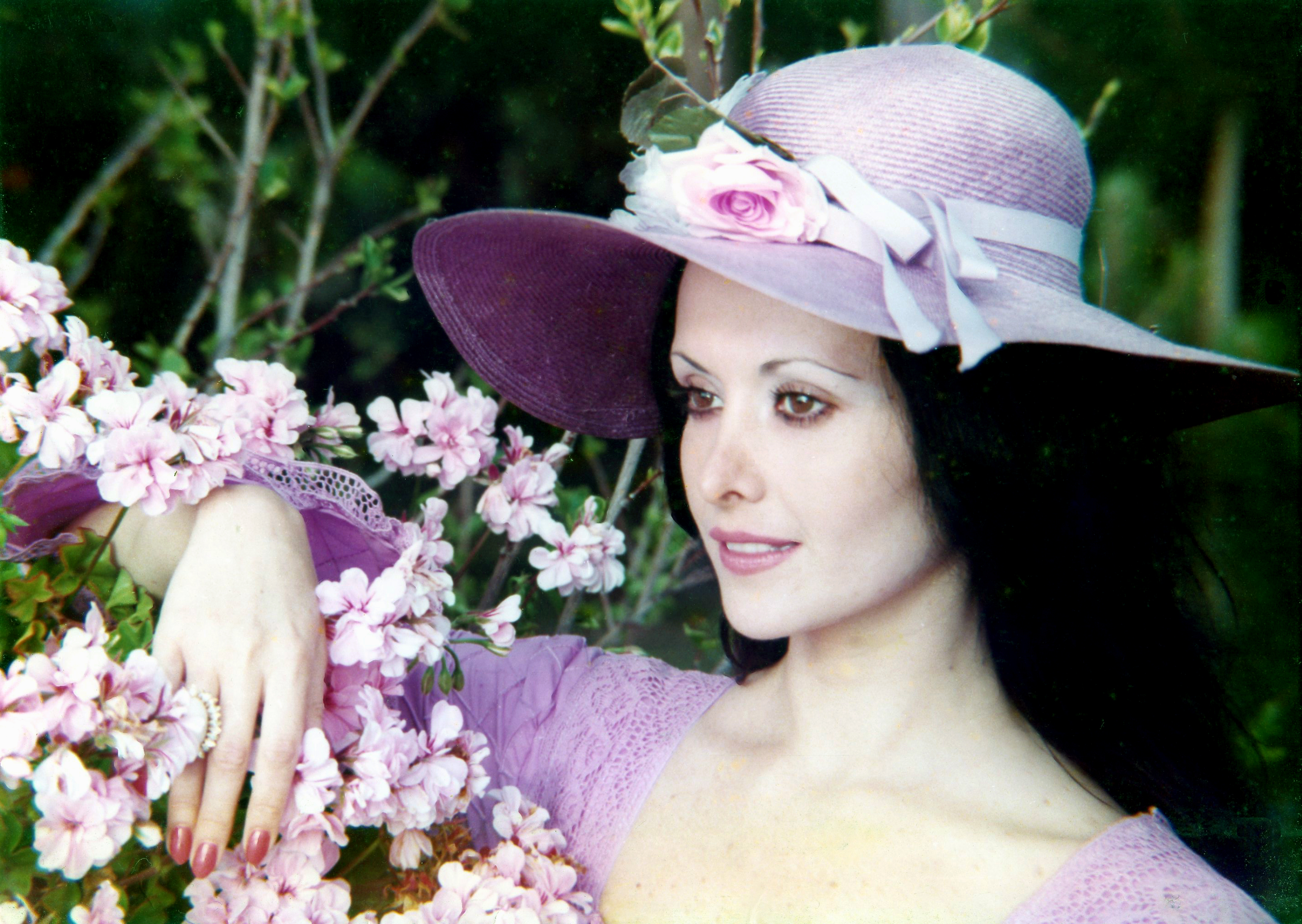 Madeline Hartog-Bel - taken in 1975 in Ajaccio, Corsica.